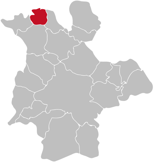 Location of the district Buchen within Siegen, Germany. Red/Grey colors match the color scheme of Germany maps and information boxes in German Wikipedia. District is highlighted in red.